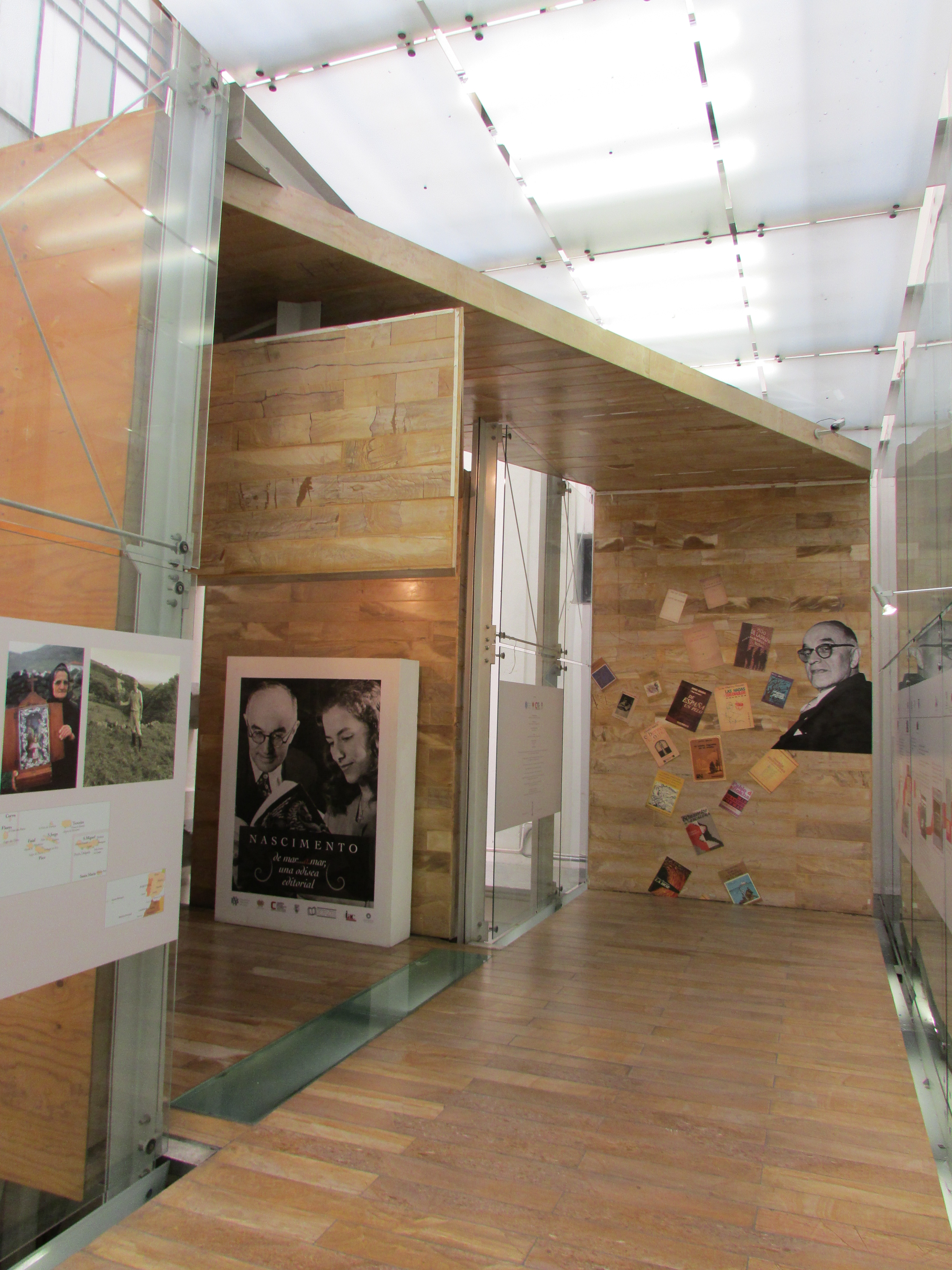 Galería de Cristal (en: Crystal Gallery), exhibition space that connects the Alemeda Hall, with the Moneda Hall, sourrounding outside the Bicentennial Hall.